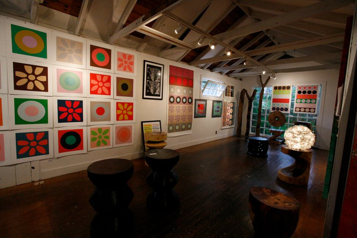 Vanessa Noel's Seven Seas art gallery on Nantucket Island, displaying the works of the late artist Peter Gee.